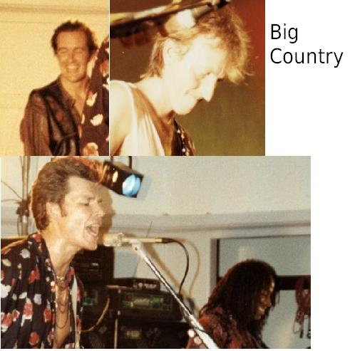 Mark Brzezicki, Bruce Watson, Stuart Adamson and Tony Butler of Big Country. Dunfermline Pavillion August 31 1991 (I think)